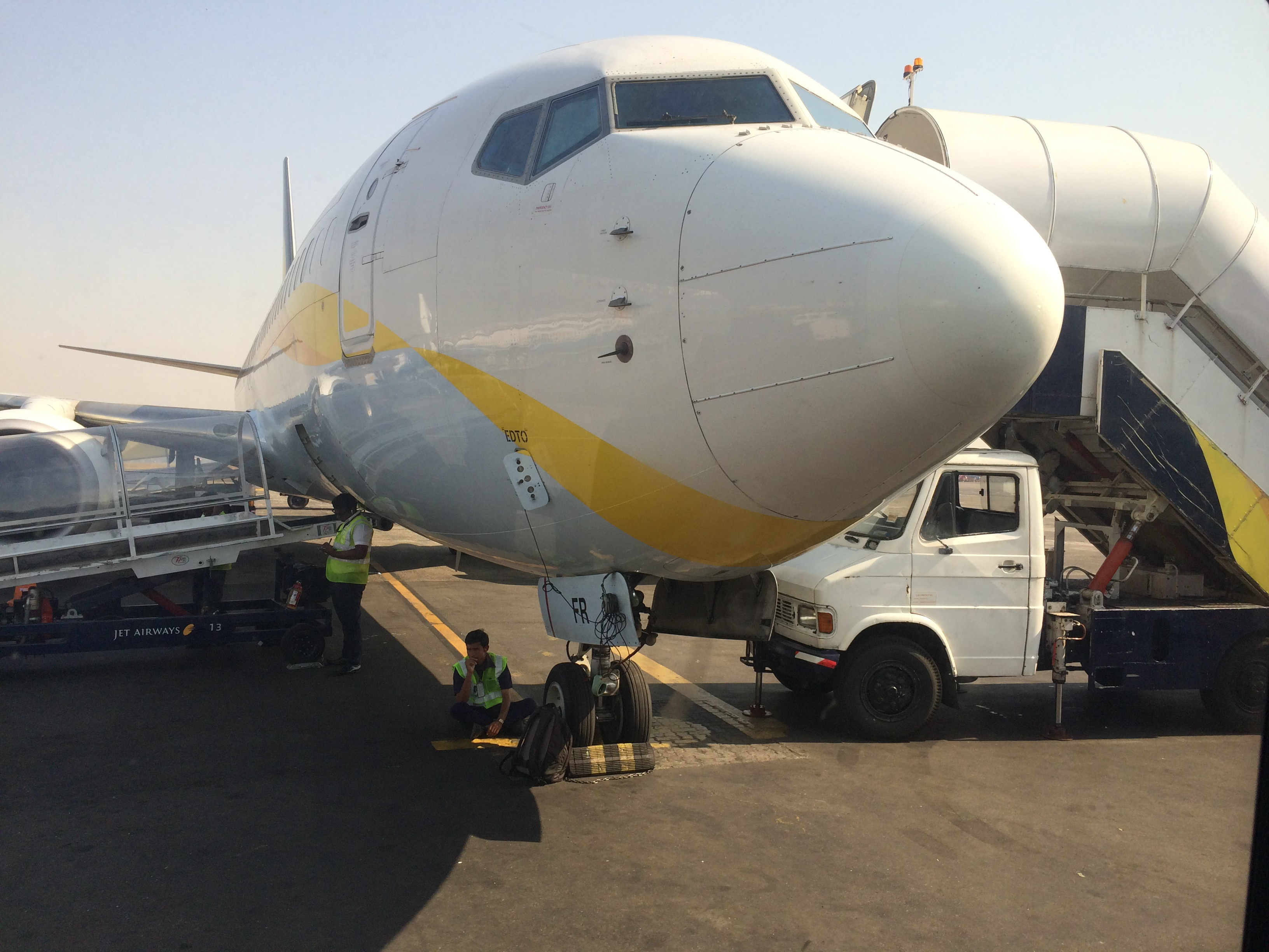 JET Airways at Mumbai Airport